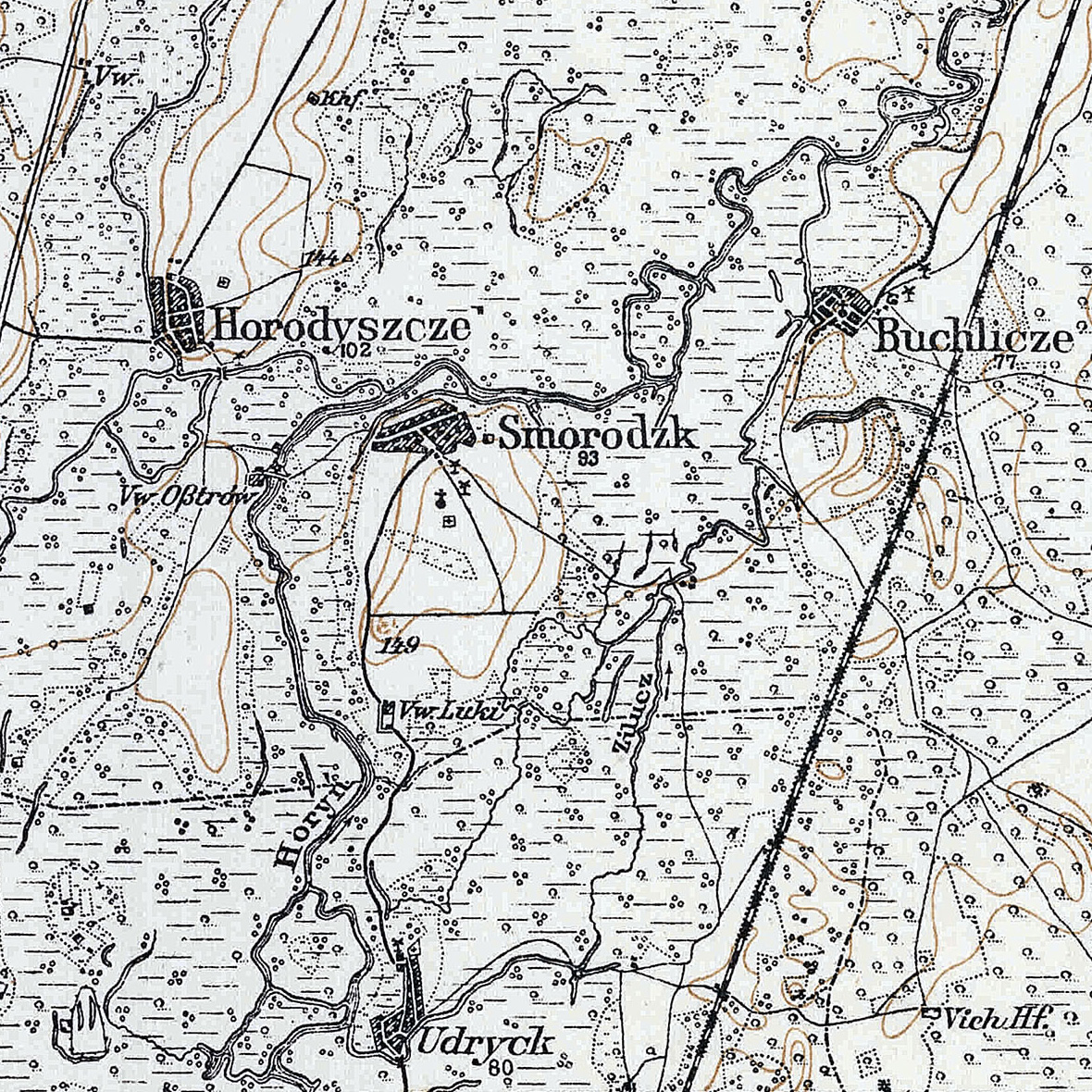 Horodyshche on the map "Karte des Westlichen Russlands", T 34, 1917. According to Digital Repository of Scientific Institutes and Kujawsko-Pomorska Digital Library the map is in the public domain.